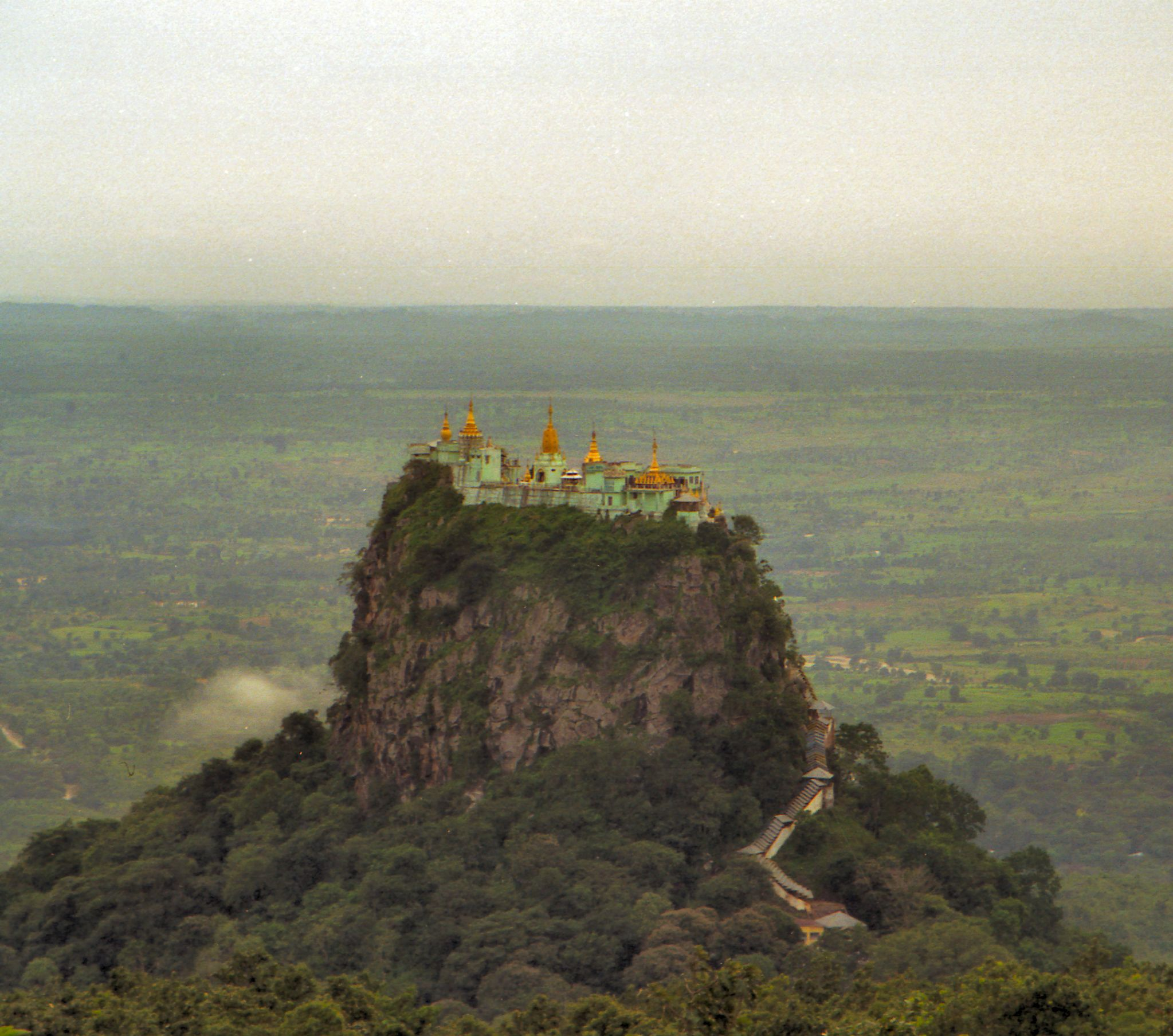 777 steps to the shrine at the top of the peak.